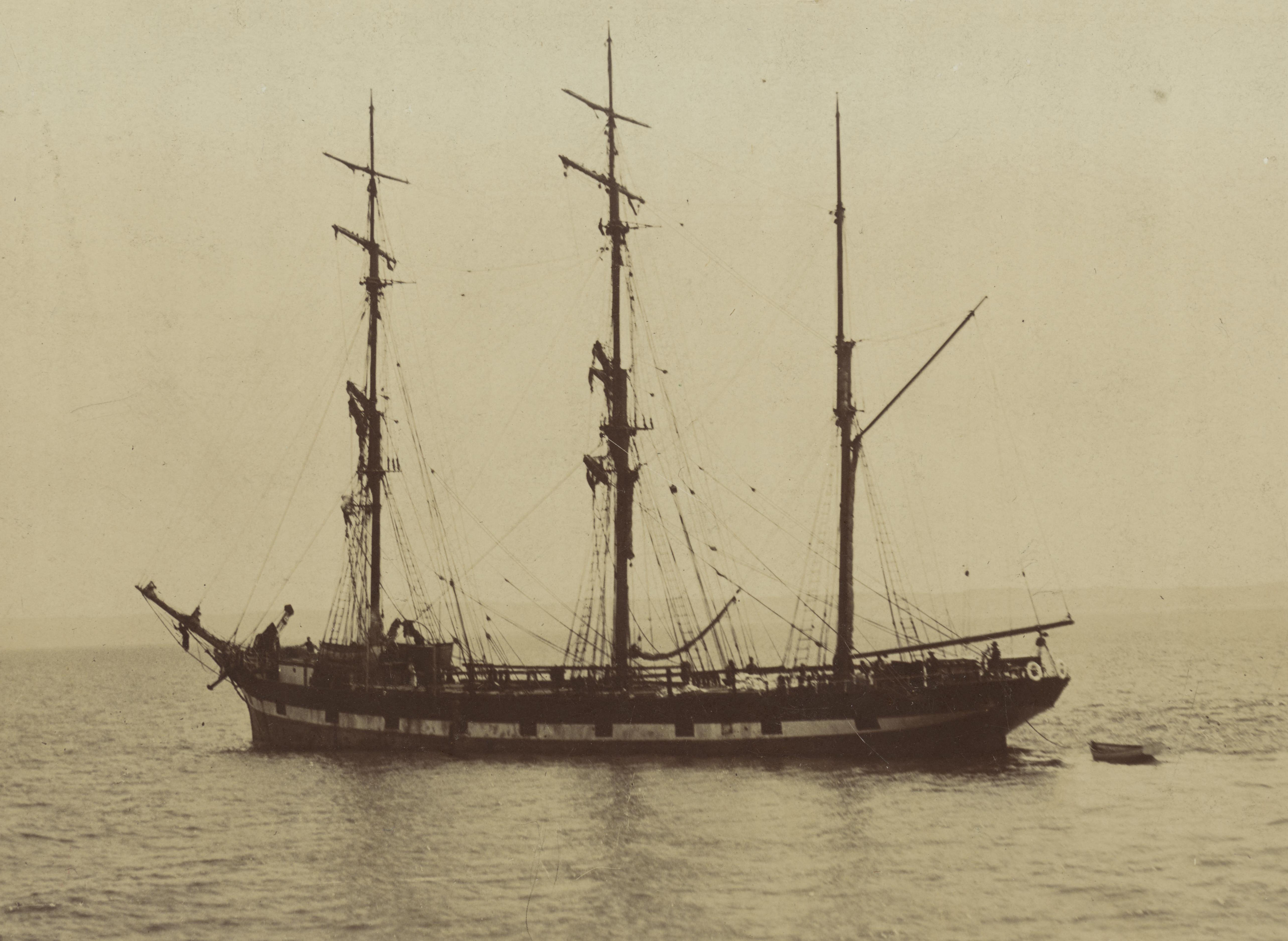 Shows a sailing ship with sails down, at sea, with a small dinghy tied to it at the right. Message on verso to Mr J Swan, Sailors' Home, Auckland, from SS "Sterling", Aratapu, Kaipara, says: Dear Joe, This job is A1, I have been looking out for you regards job, & skipper says he will let me know soon, there are always jobs going here. I wrote to Grant about my box of clothes [...], will you kindly give them over to Mr Grant's care, I will come over end of month. You will see to this won't you, as I do not want to loose them. Yrs J Thorbath[?] Quantity: 1 colour photo-mechanical print(s) on postcard in album.. Physical Description: Photograph on postcard, 89 x 139 mm. Postcard. Timber-laden vessel waiting for favourable breeze, Kaipara Heads, N.Z. E.R. series, 57 [posted 1908]. [Postcard album of cards donated by Mrs Brabin. 1909-1920s].. Ref: Eph-F-POSTCARD-Vol-1-28-1. Alexander Turnbull Library, Wellington, New Zealand.